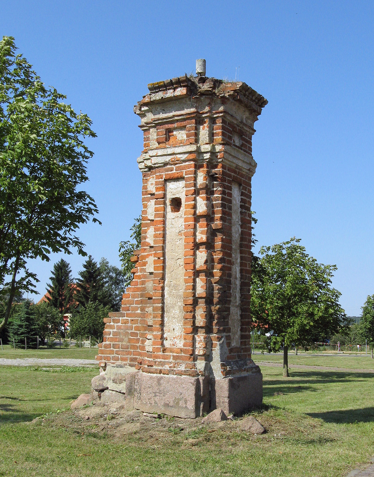 A post/pier as the rest of the former gate to the manor in Prebberede, disctrict Güstrow, Mecklenburg-Vorpommern, Germany